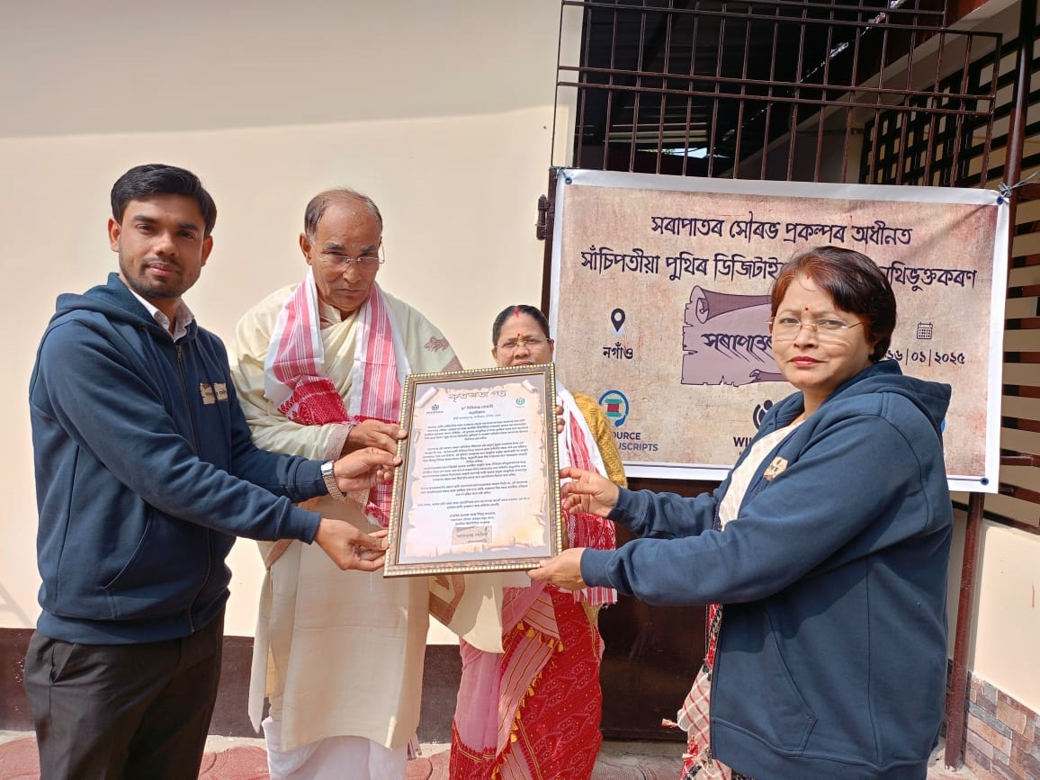 felicitation